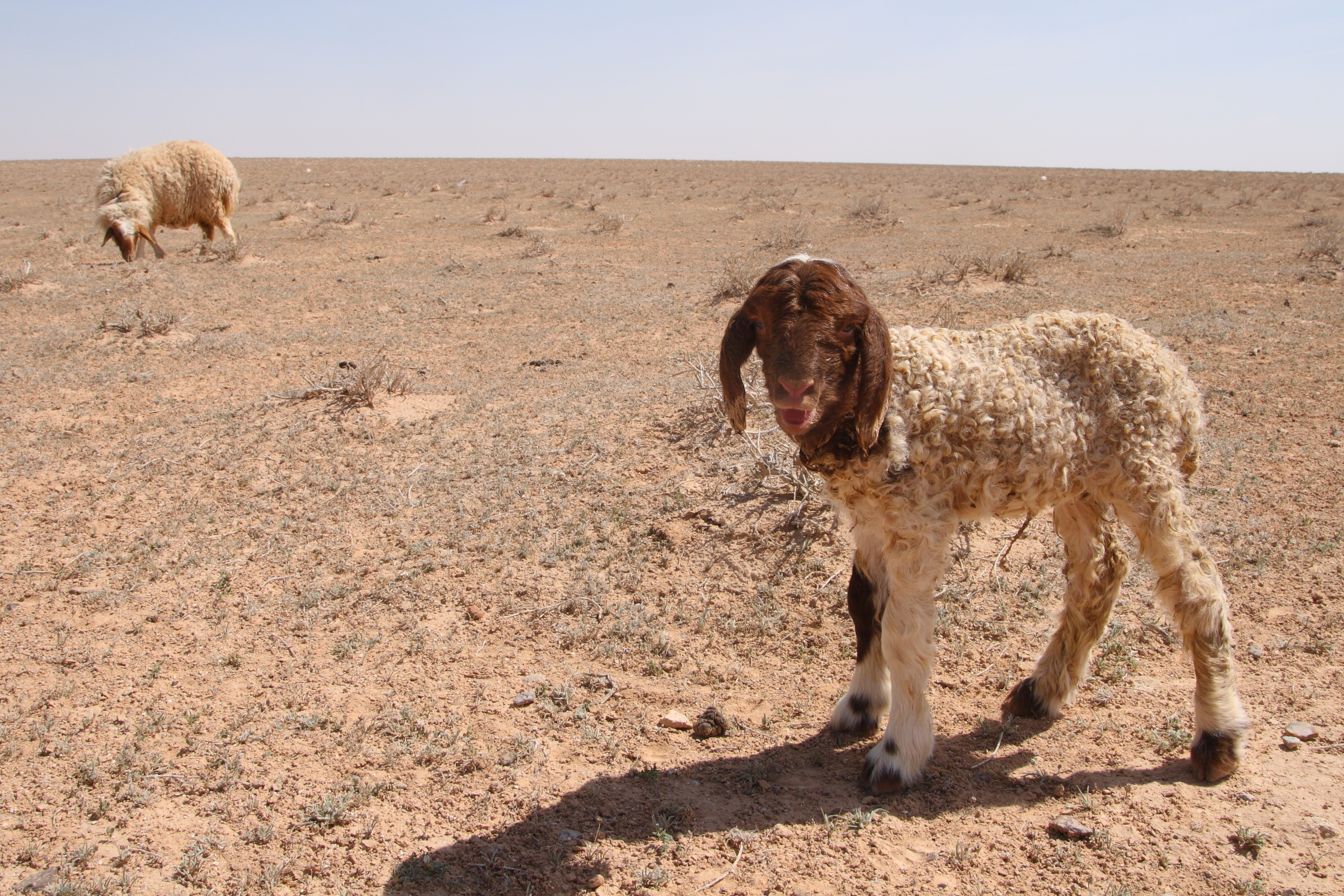 The Bedouin largely leave their animals to take care of themselves. This little lamb (an Awassi) was probably only a day or so old, and was still a little unsteady on his feet.